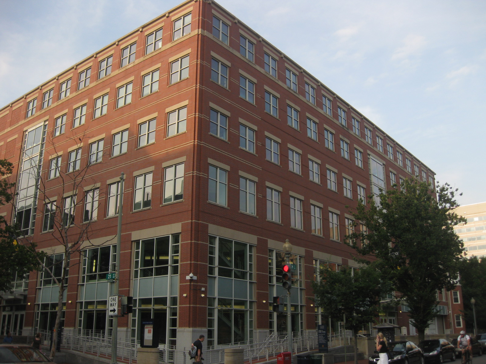 The Media and Public Affairs building at 805 21st St, the corner of 21st and H Streets.